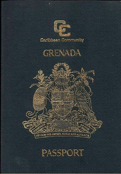 Caribbean Community Grenada passport issued in 2015